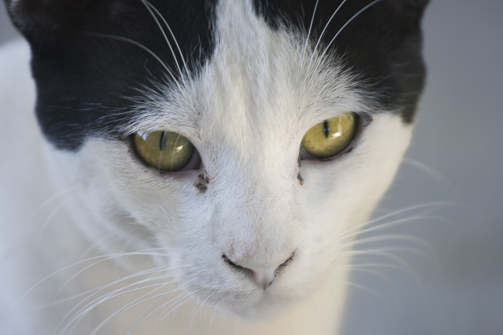 Rheum in cat eye.